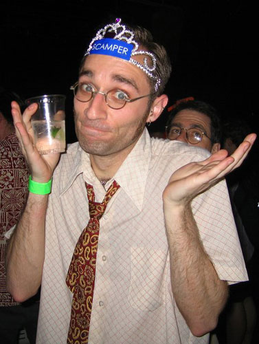 An example of shrugging